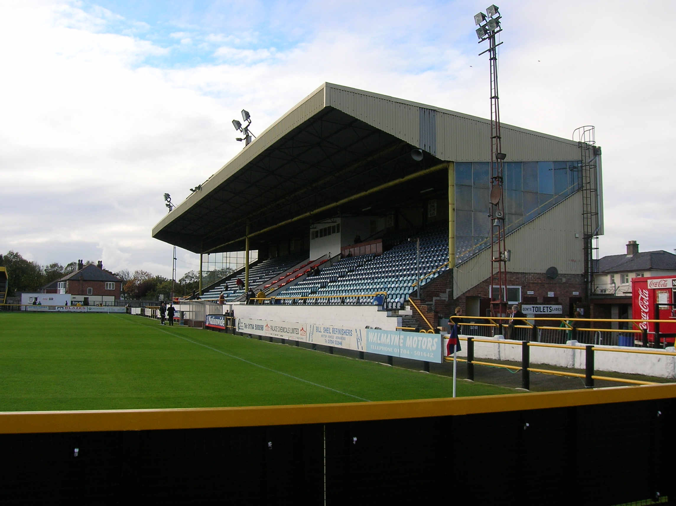 Taken at Southport vs Harriers, 22/10/2005